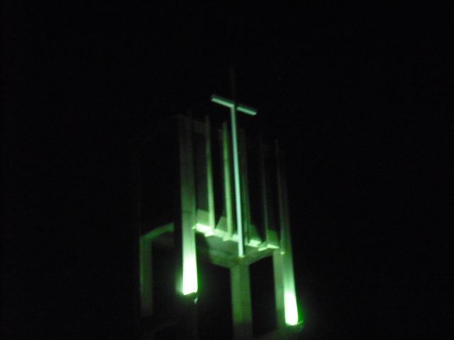 Regina Mundi Catholic College, London, Ontario, Canada